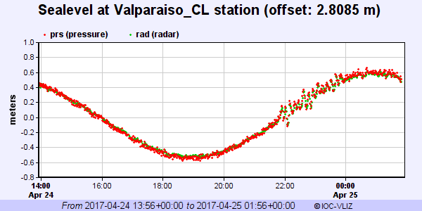 Sea level station in front of Valparaiso, Chile. After the earthquake shows the recorded tsunami.